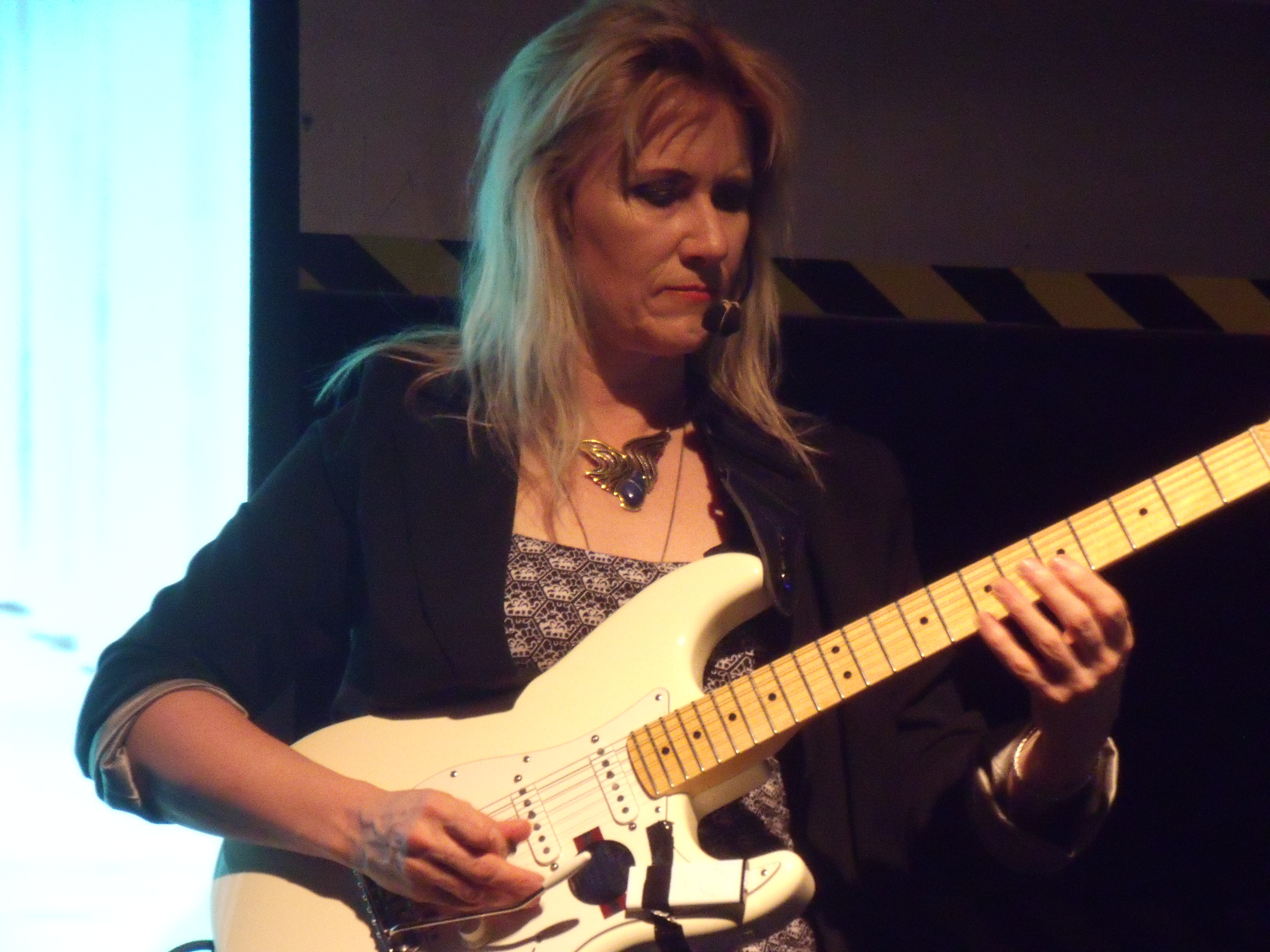 Jennifer Batten performing at the Renfrew Ferry, Glasgow, on 20 February 2010.